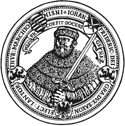 “Hanfried” (John Frederick I, Elector of Saxony), logo of the Friedrich-Schiller-Universität Jena